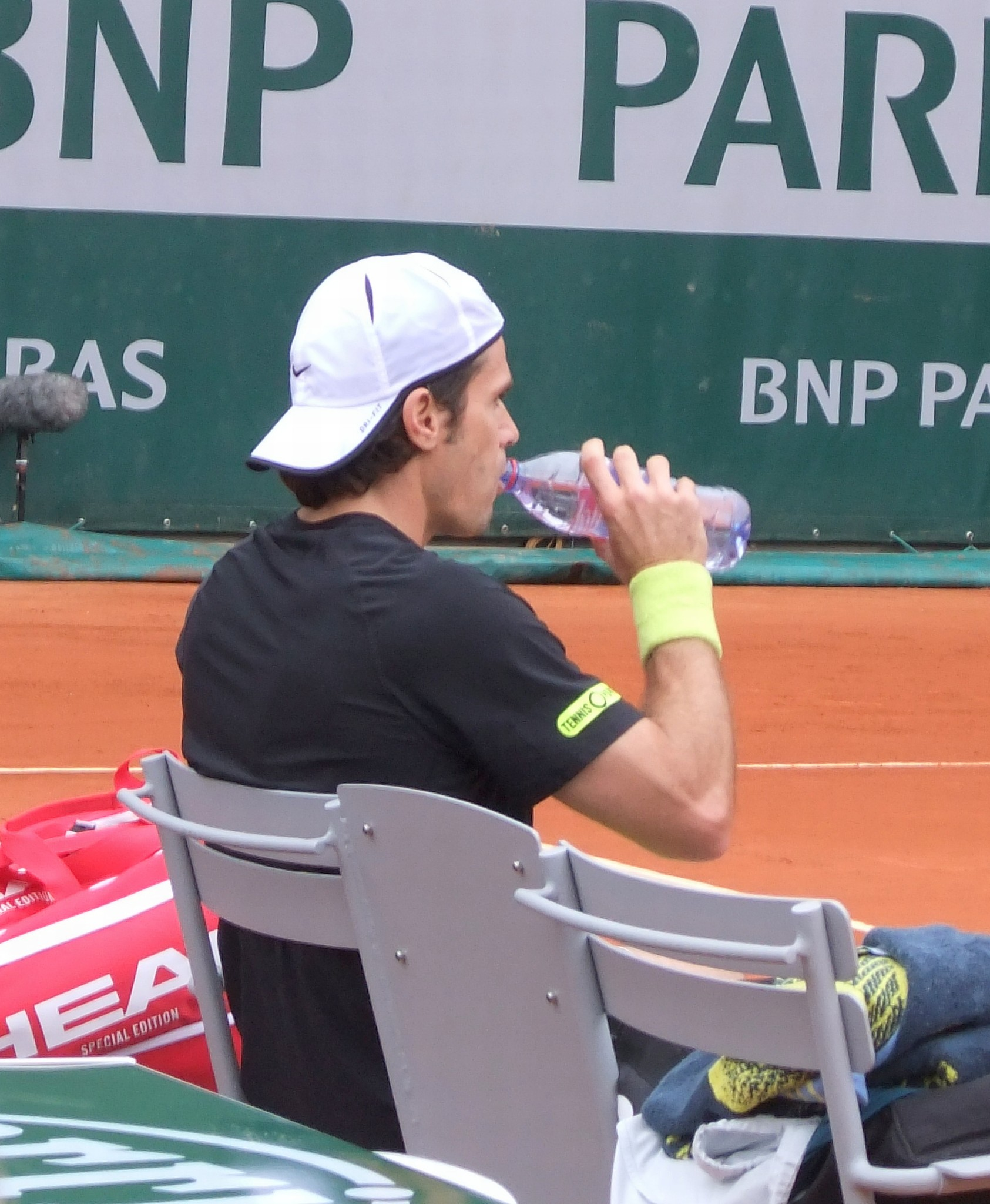 Tommy Haas Roland Garros 2013 2nd round match vs Jack Sock